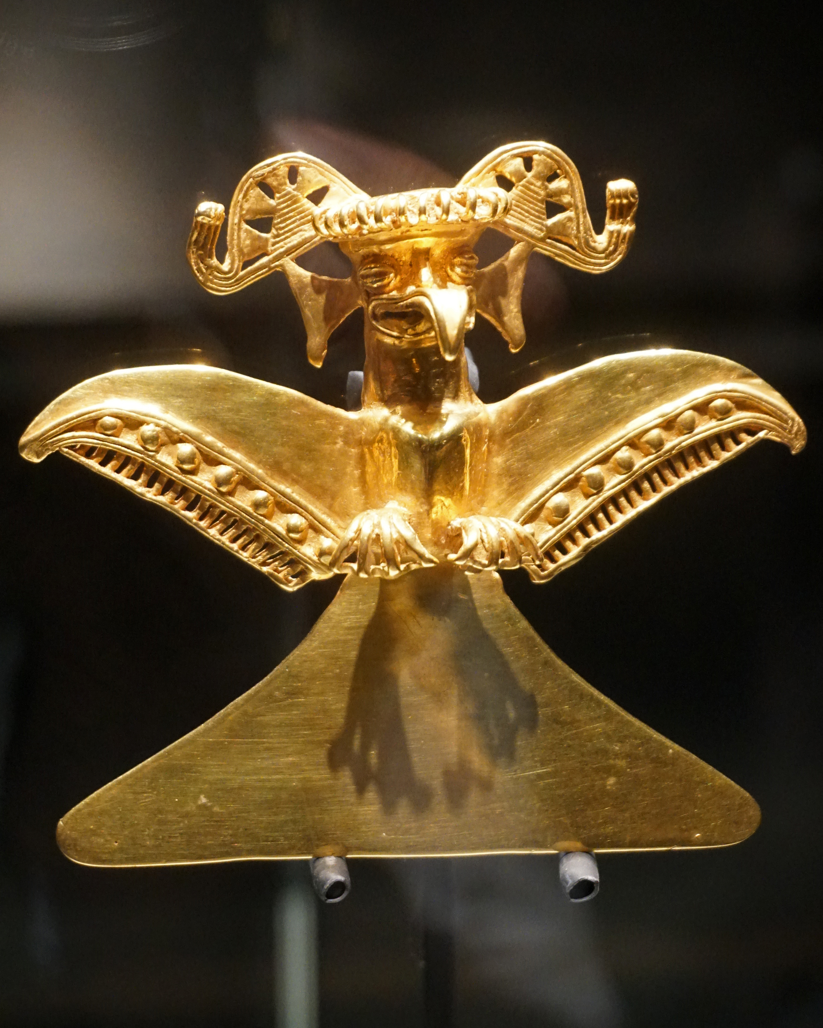 Gold pendant shaped like a harpy eagle with a cord headdress related with the presence of protective spirits exhibited at Museo de Oro Precolombino del Banco Central de Costa Rica, San José. South Pacific, 700-1550 AD